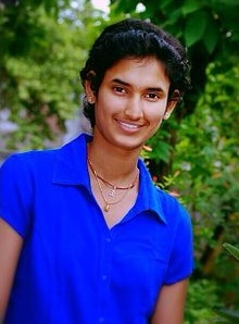 This is a photo of a Ruthvika Shivani Gadde.